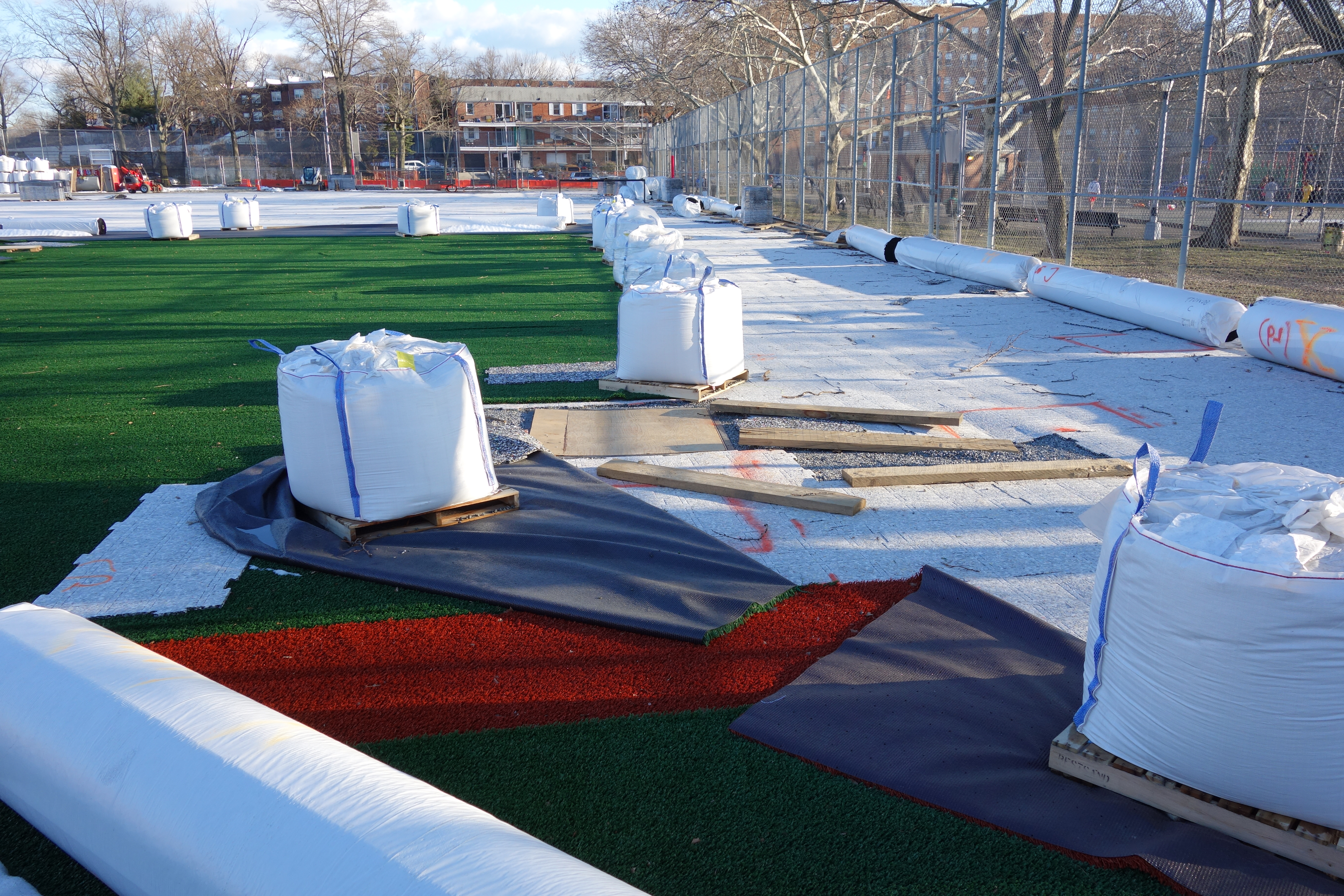 Looking south at the reconstruction of the Joseph Austin Playground baseball and soccer field from the Grand Central Parkway in Jamaica, Queens. Here you can see that the underside of the turf is just a thin layer of rubber, which while safer than AstroTurf is still dangerous for impacts and injuries. Below that is an unusual layer of white puzzle pieces. Finally, below that is gravel, which helps drainage.